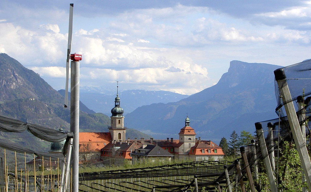 Hail nets in front of the Johanneum in the village of Tirol